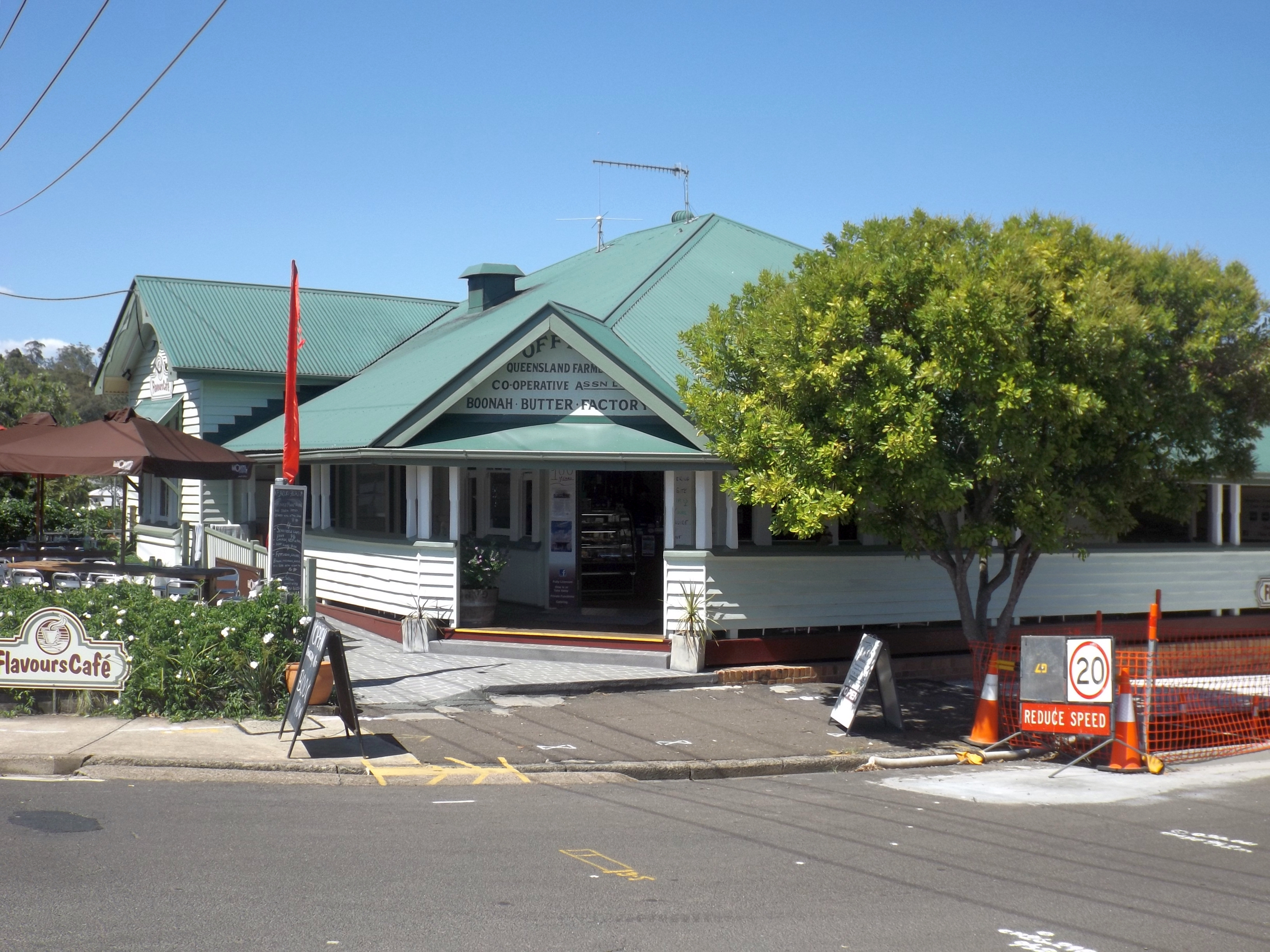 Photo of Boonah Butter Factory at Boonah, Scenic Rim Region, Queensland, Australia. The building is now a cafe.